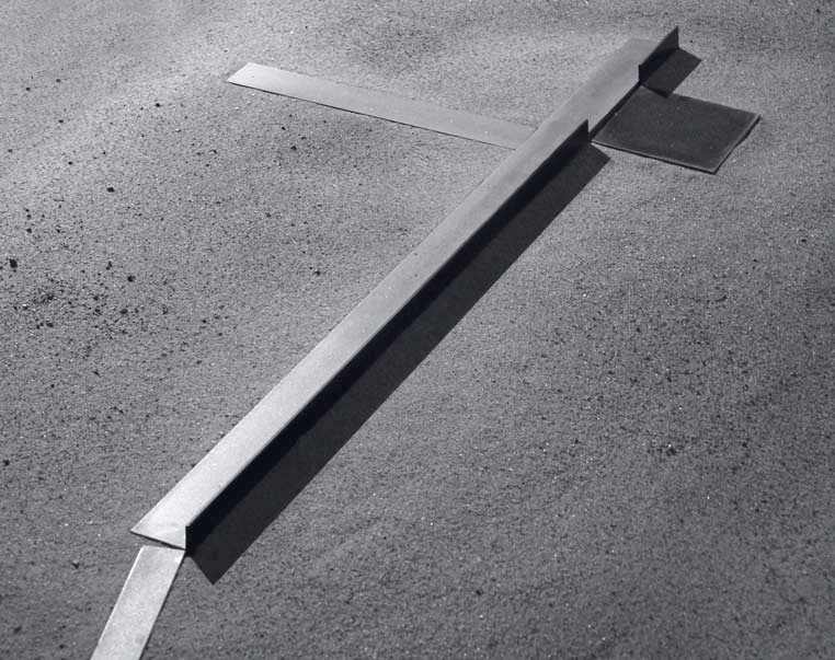 The Memorial to the Victims of the disaster in Smolensk, mock-up.